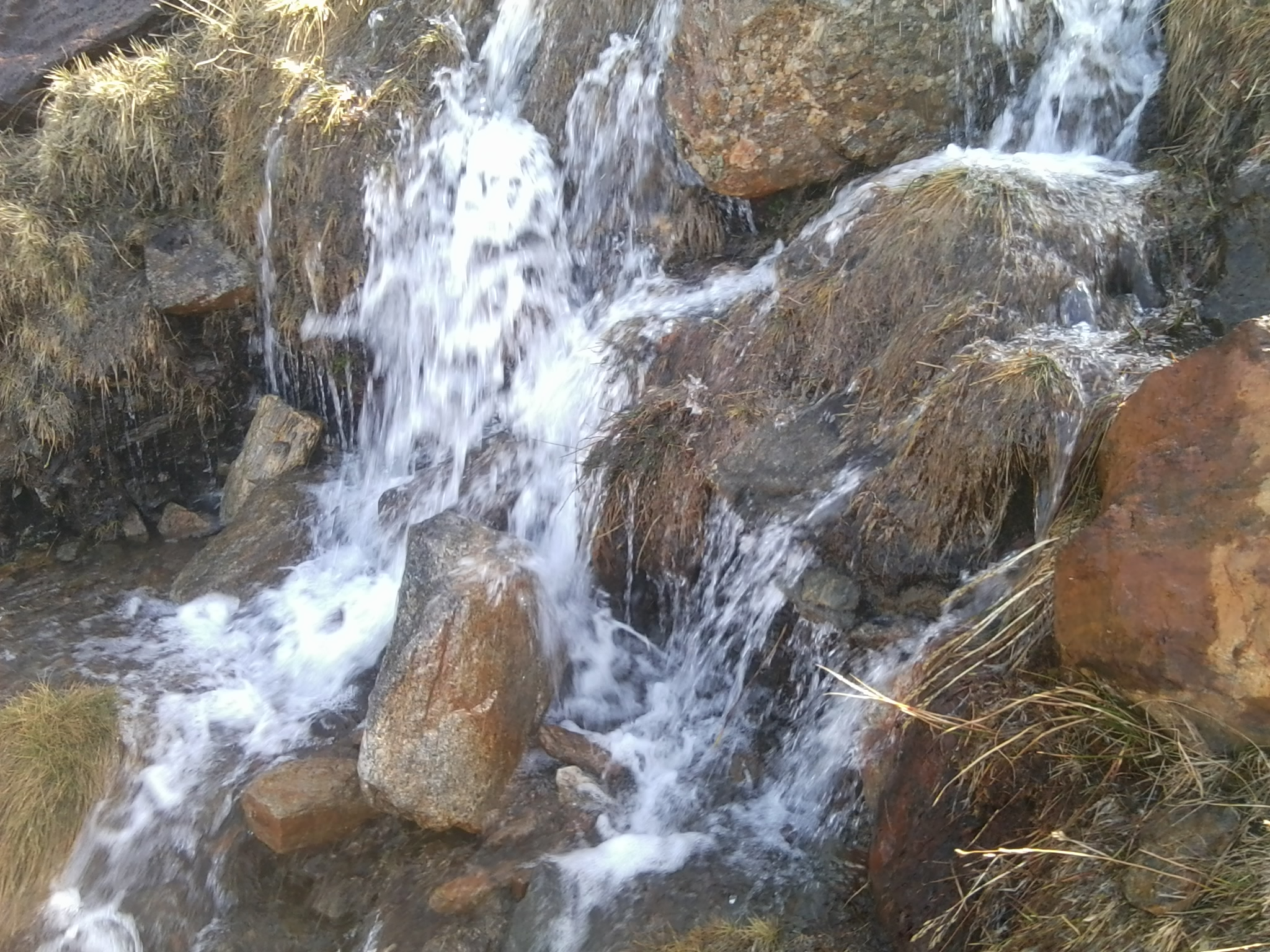 Waterfalls in Ariège, France